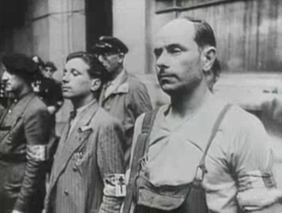 La Libération de Paris is a documentary shot by the French Resistance during the battle of Paris in August 1944. On August 15, the French Resistance set an uprising in the capital of France then occupied by the German. On August 25, the partisan snipers received backup as the Free French 2nd Armored Division of general Leclerc enters Paris. Urban warfare ensues involving Free French Forces and the German garrison. German and Vichy loyalists are taken prisoners as general Von Choltitz surrenders to Leclerc on August 25. The US enter the city later and de Gaulle delivers a famous speech. Screenshot from the 5:10 mark, showing ragtag "Resistants" at the Hotel de Ville in Paris.